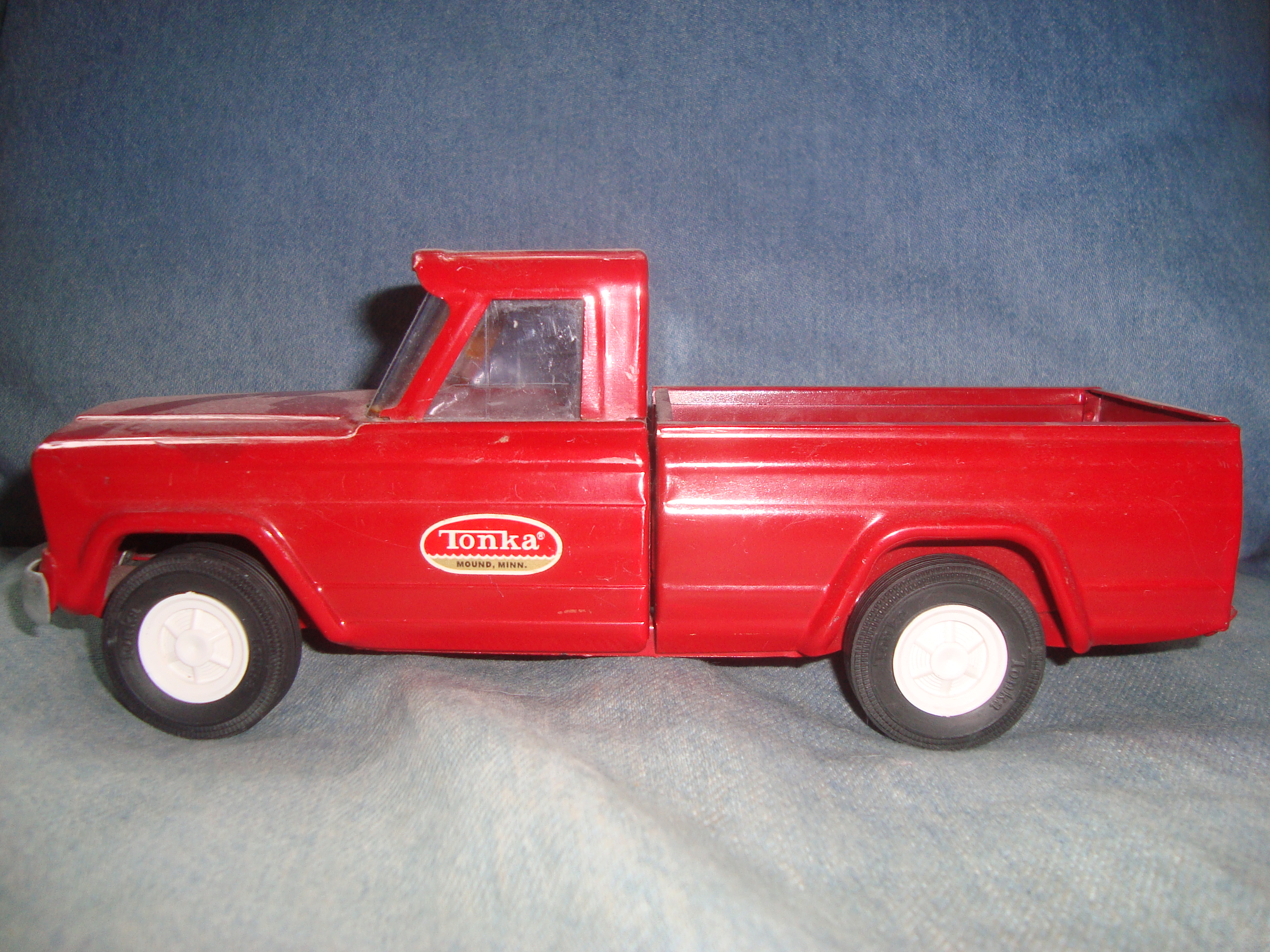 1960's Tonka truck in front of a blue background.